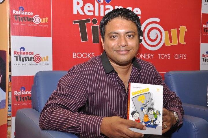 Author Shaiju Mathew on the release day of his book Knocked Up in Pune, India